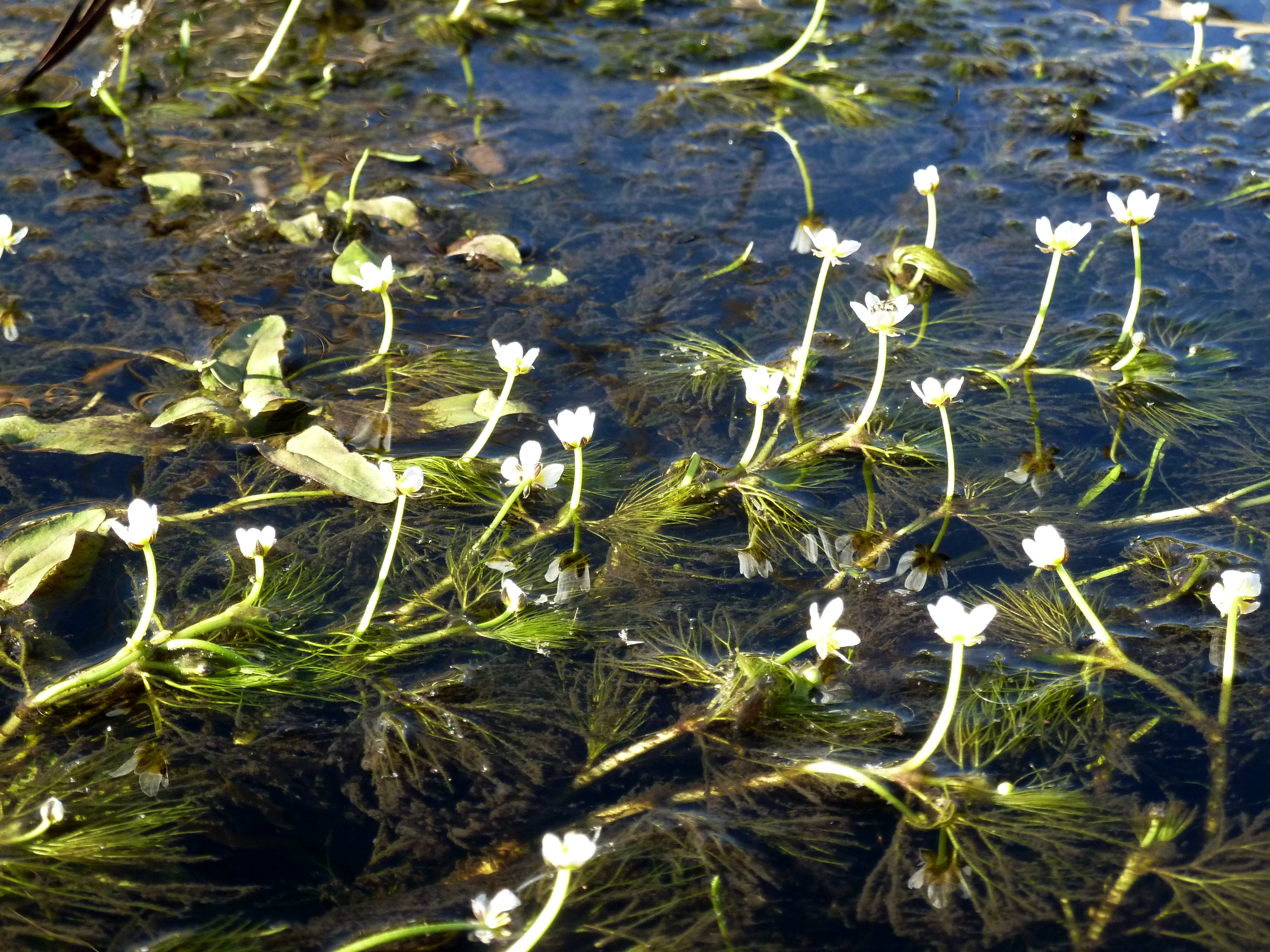 Water crowfoot in a meandering spruit near Tweeling, Free State